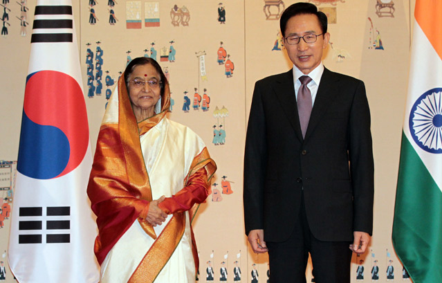 President Lee Myung-bak (right) and Indian President Pratibha Patil held a summit on July 25 at Cheong Wa Dae in Seoul